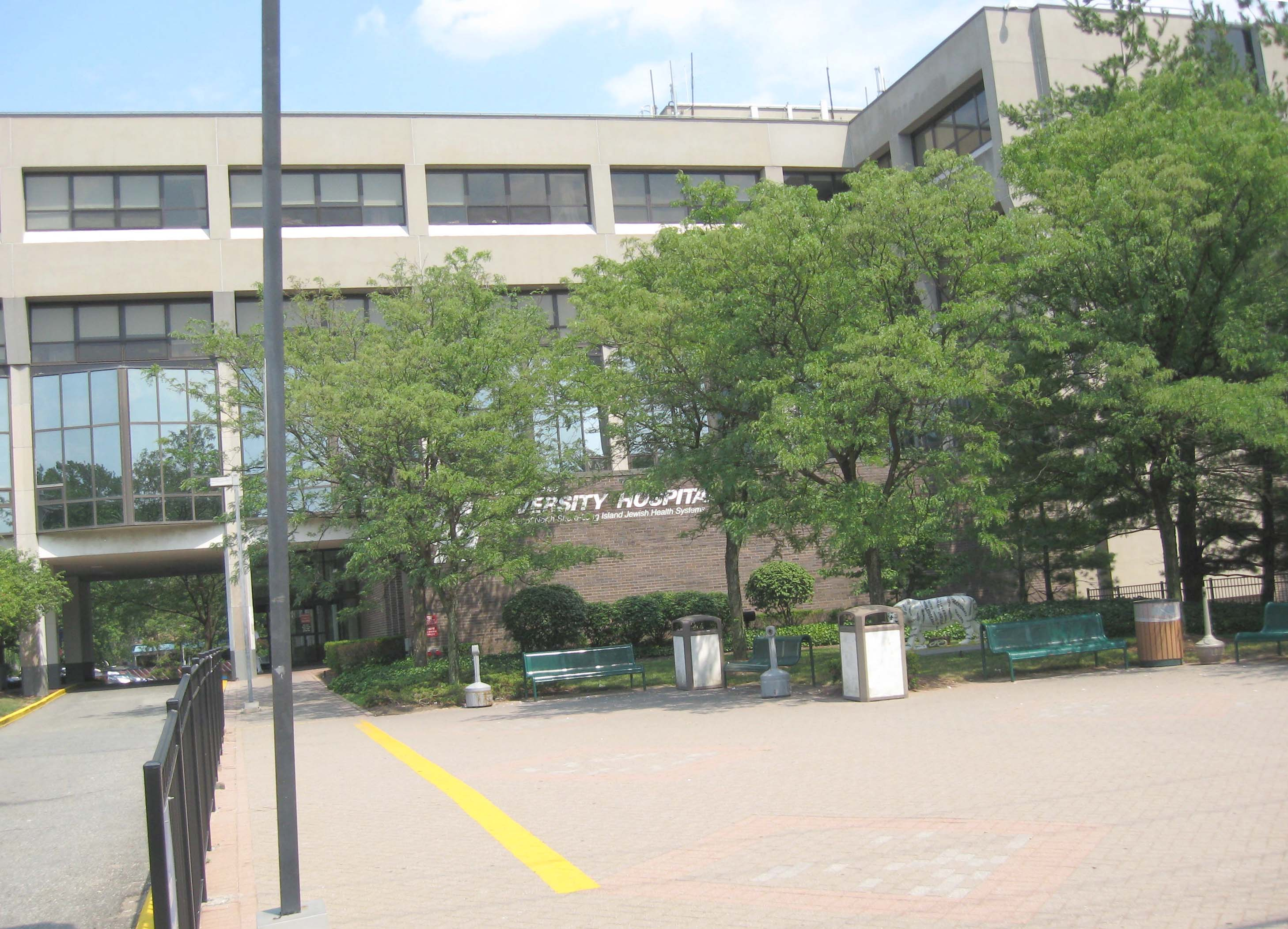 Looking east at Staten Island University Hospital South Campus entrance on Seguine Avenue on a sunny midday